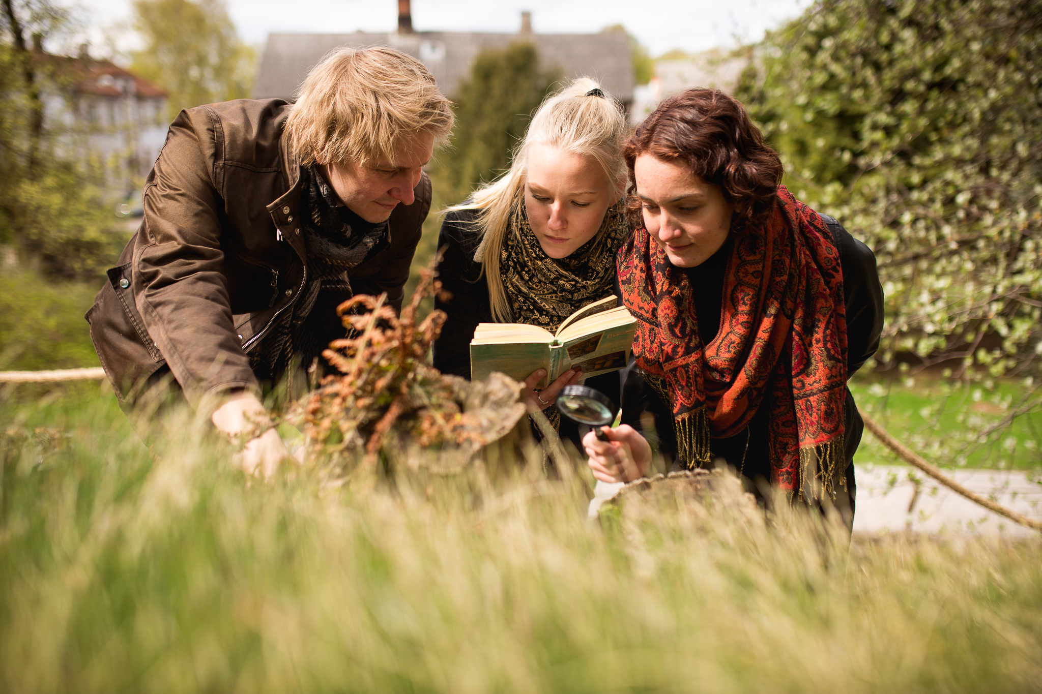 I asked some fellow biology students to help me creating promotional photos for a citizen science event. The event, "Loodusvaatluste maraton", is a form of BioBlitz where in certain pre-defined areas people try to observe and recognise as many species of wildlife as possible. People can use a special nature observation mobile app "Legulus" for registering observations and transferring them to a national biodiversity database. All data would be open and public, and participants could compare their success live.